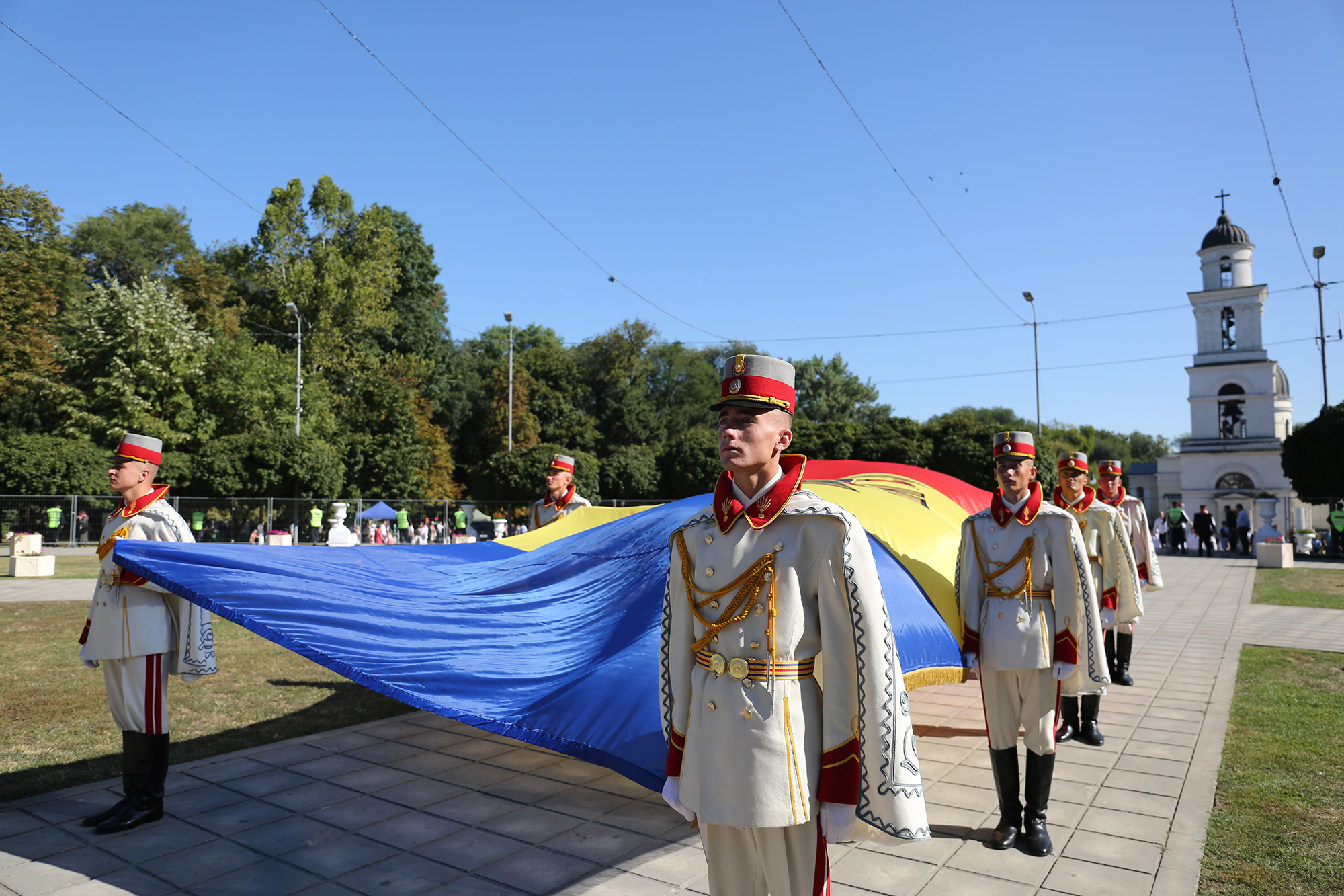 Сьогодні, 27 серпня, Міністр оборони України генерал армії України Степан Полторак взяв участь в урочистостях з нагоди відзначення 25 річниці незалежності Молдови